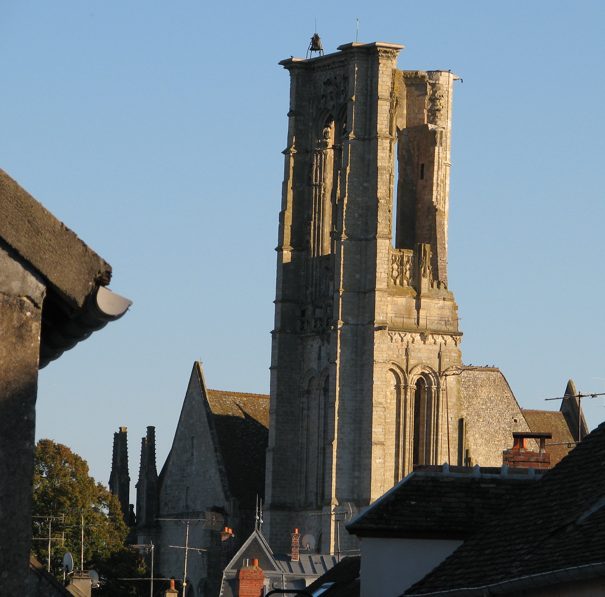 The basilica of Satin Mathurin in Larchant, France